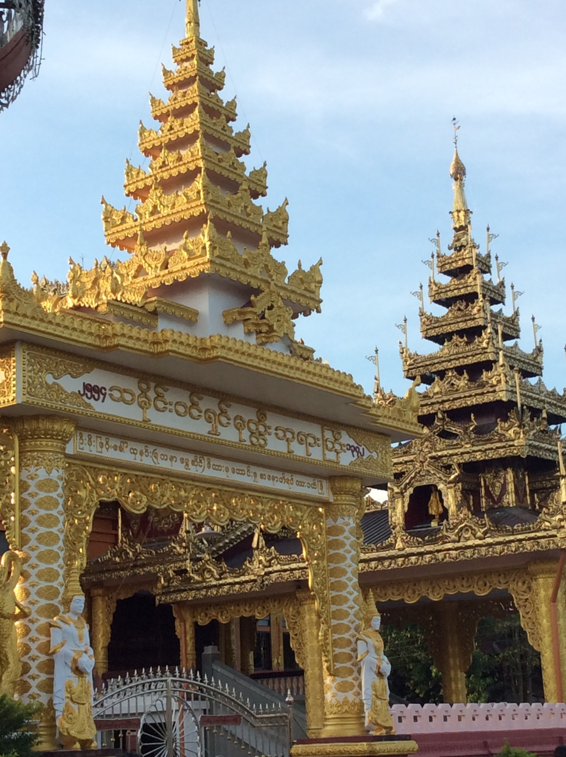 Shin Mote Htee Pagoda, Shin Mote Htee Village, Dawei Township, Tanintharyi Region မြန်မာဘာသာ: ရှင်မုတ္ထီးဘုရားကြီး၊ ရှင်မုတ္ထီးကျေးရွာ၊ ထားဝယ်မြို့နယ်၊ တနင်္သာရီတိုင်းဒေသကြီး